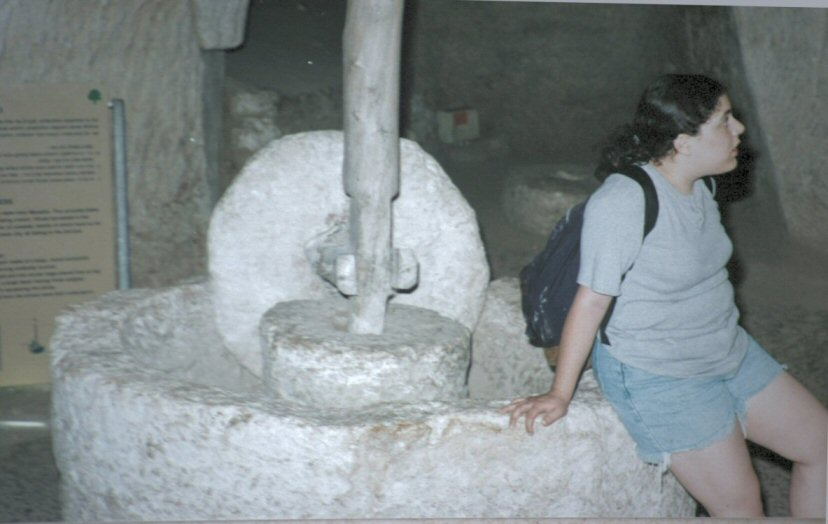 Old millstone used to crush olives, Maresha, Israel